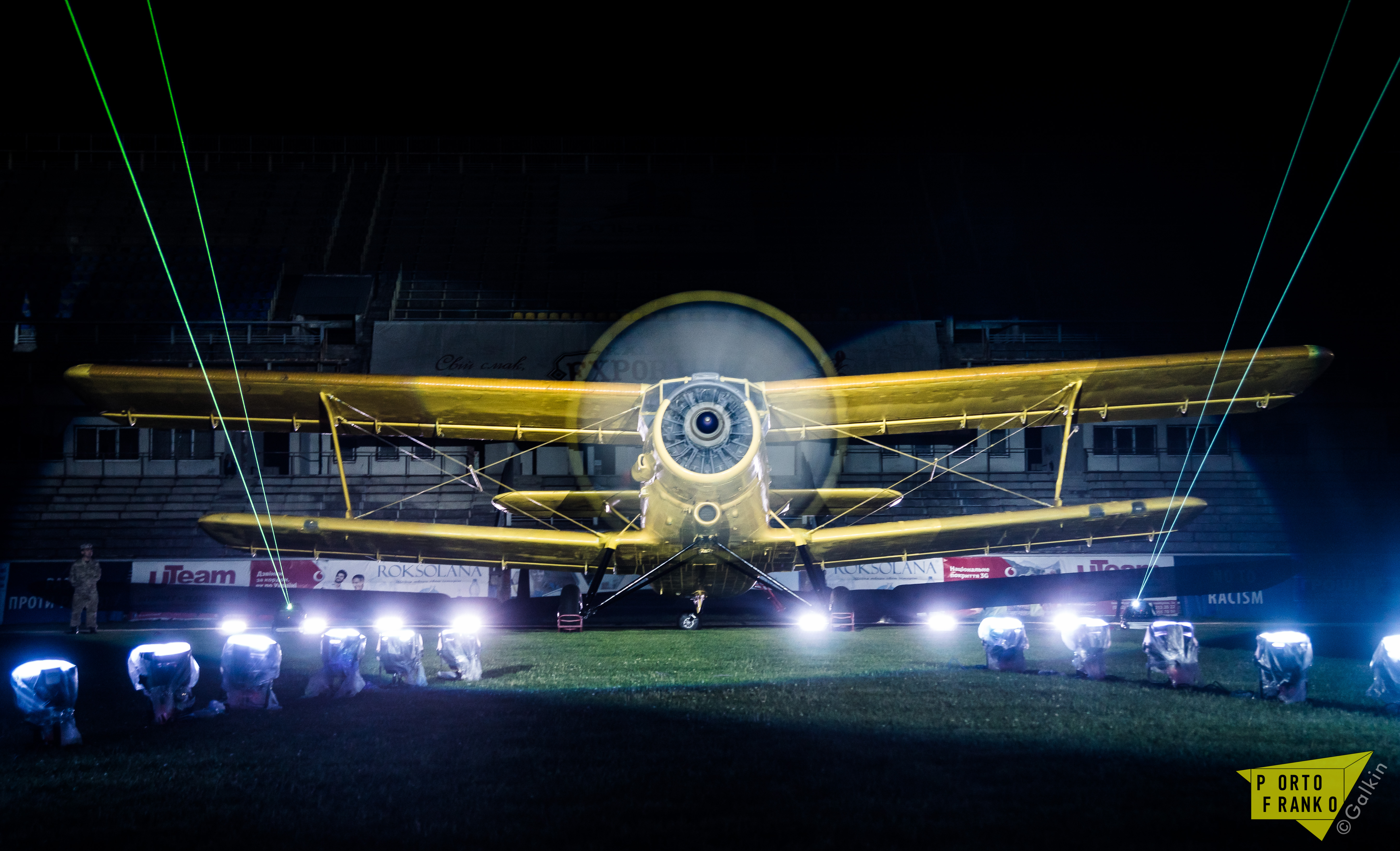 Opera AEROPHONIA. AN-2 as musical instrument. Ivano-Frankivsk, 14.06.2018